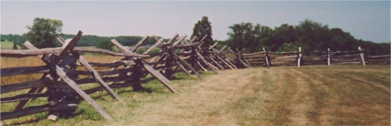 Fence Photo by Jan Kronsell, 2002.